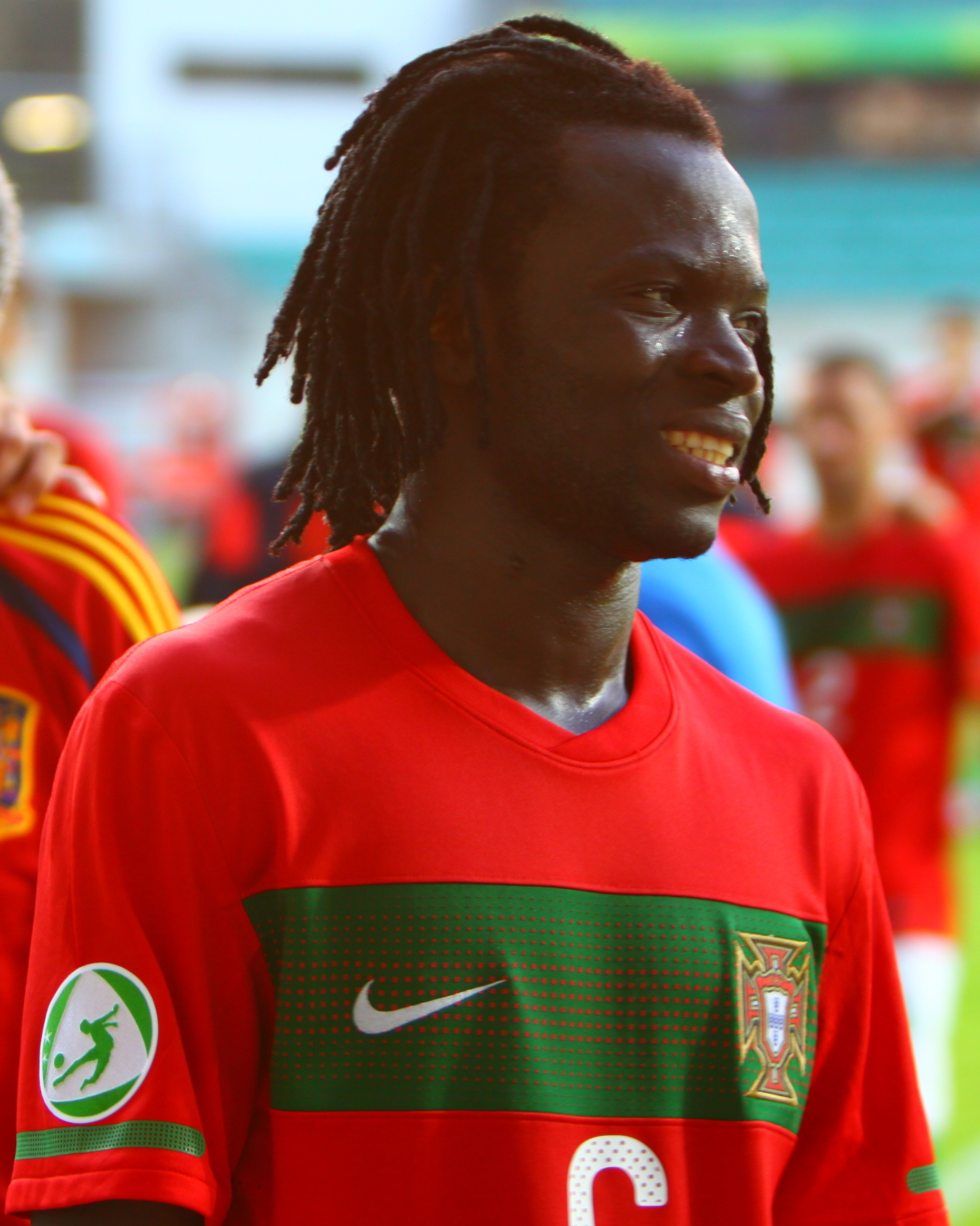 Agostinho Cá at the U-19 Portugal vs Spain.